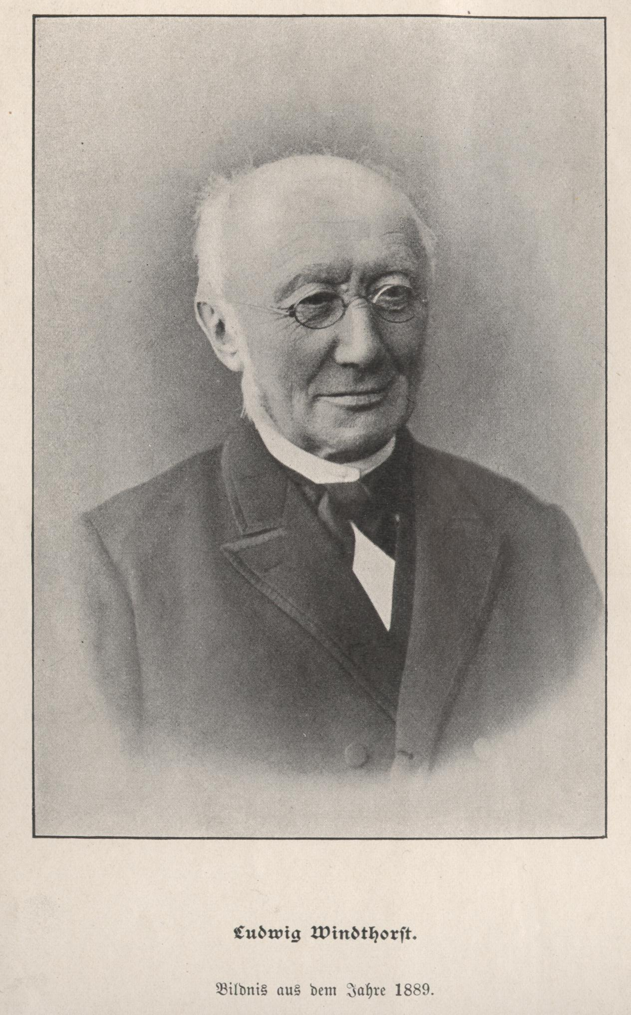 Ludwig Windthorst German politician